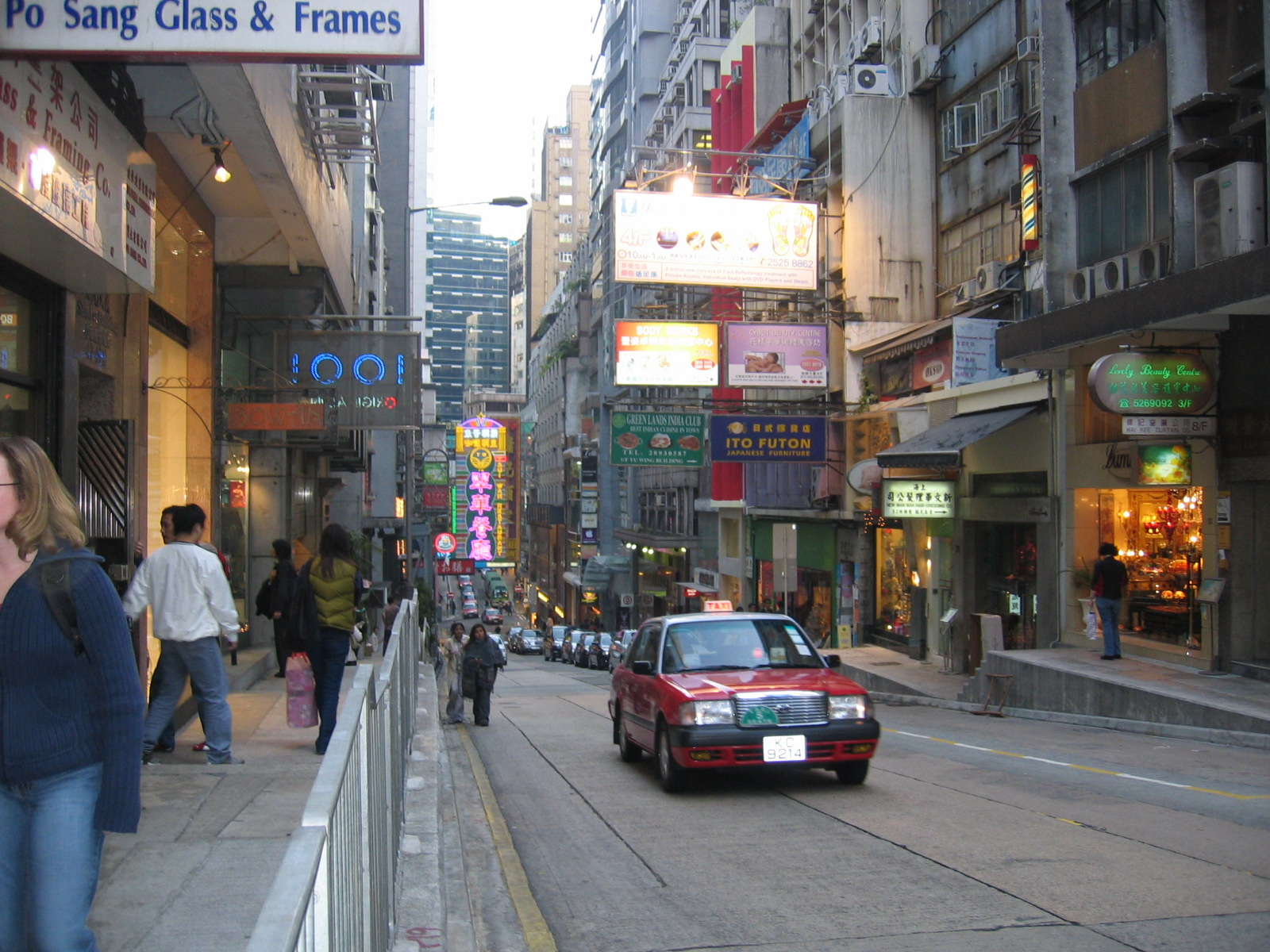 Wellington Street, Central, Hong Kong. Taken by Terence Ong on 17 December 2005